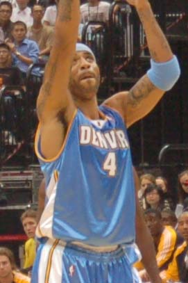 Kenyon Martin of the Denver Nuggets taking a free throw against the Indiana Pacers in a preseason game in Taiwan.